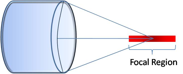 Diagram of a focused transducer